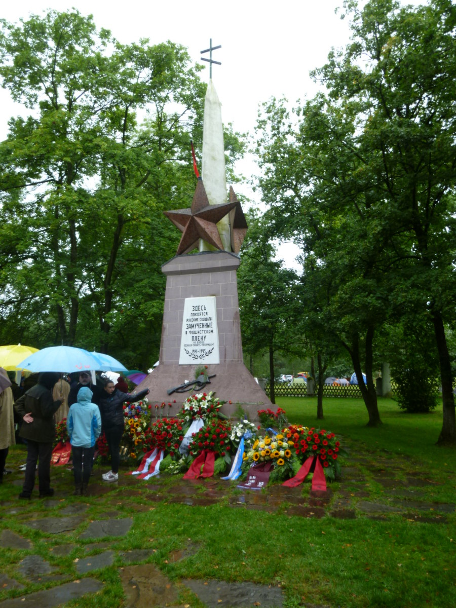 Gedenkveranstaltung Blumen für Stukenbrock 2015